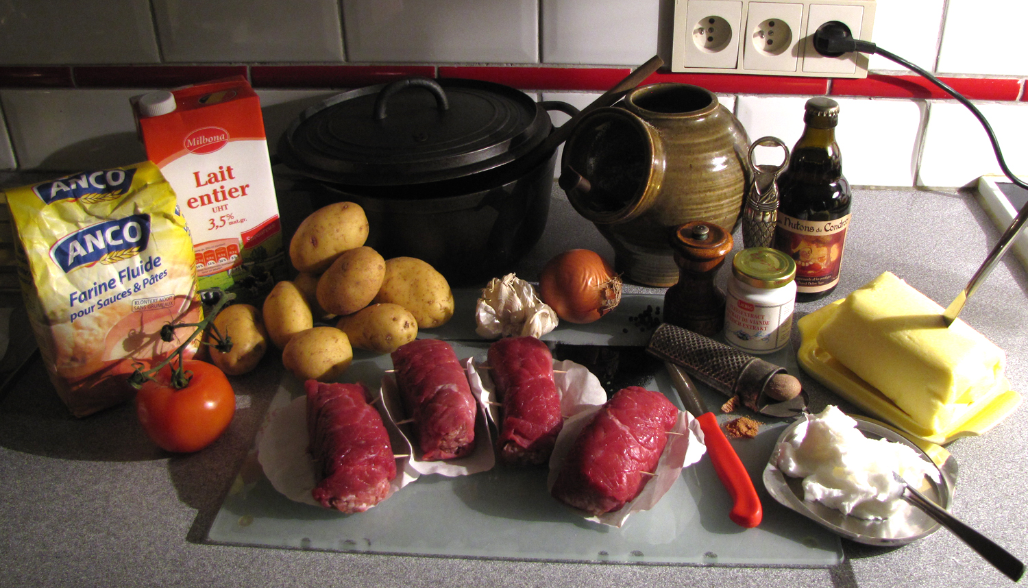 Ingredients used in preparing "oiseaux sans tête" (Belgian paupiette) accompanied by mashed potatoes: For birds and the sauce : rolls of minced beef stuffed prepared by a butcher, lard, onion, garlic (optional), tomato, meat extract broth, amber beer (Les Nutons du Condroz, brewery Au Grimoire des Légendes, Aywaille), butter, flour. For the puree: potatoes, butter, milk, salt, pepper, nutmeg.